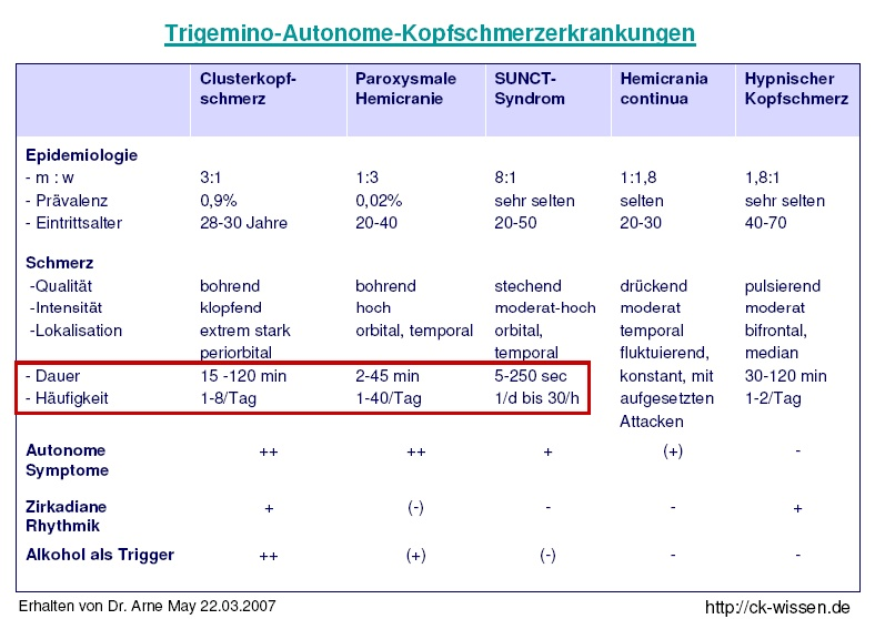 Overview: trigeminal-autonomic cephalgias